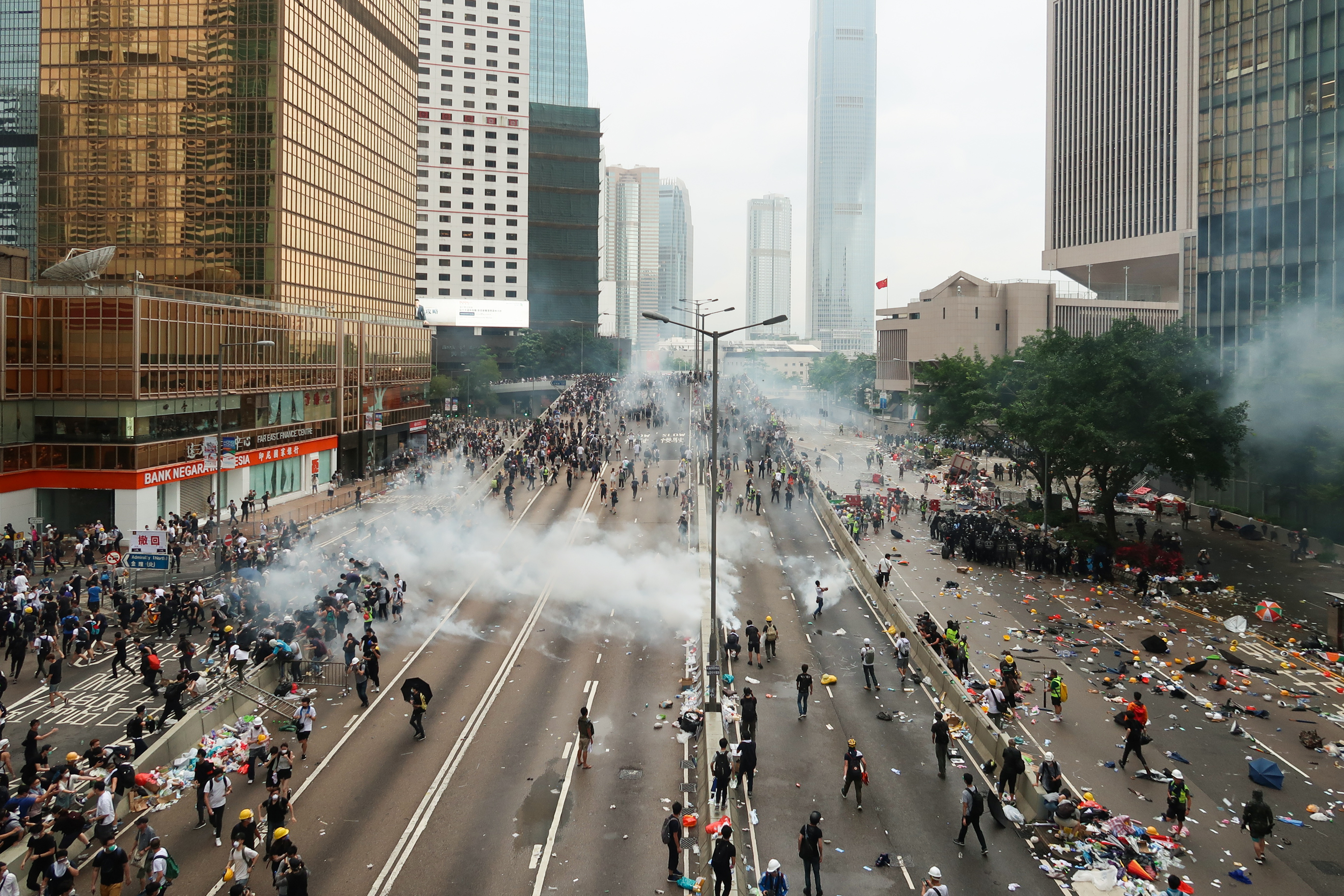 Harcourt Road tear smoke